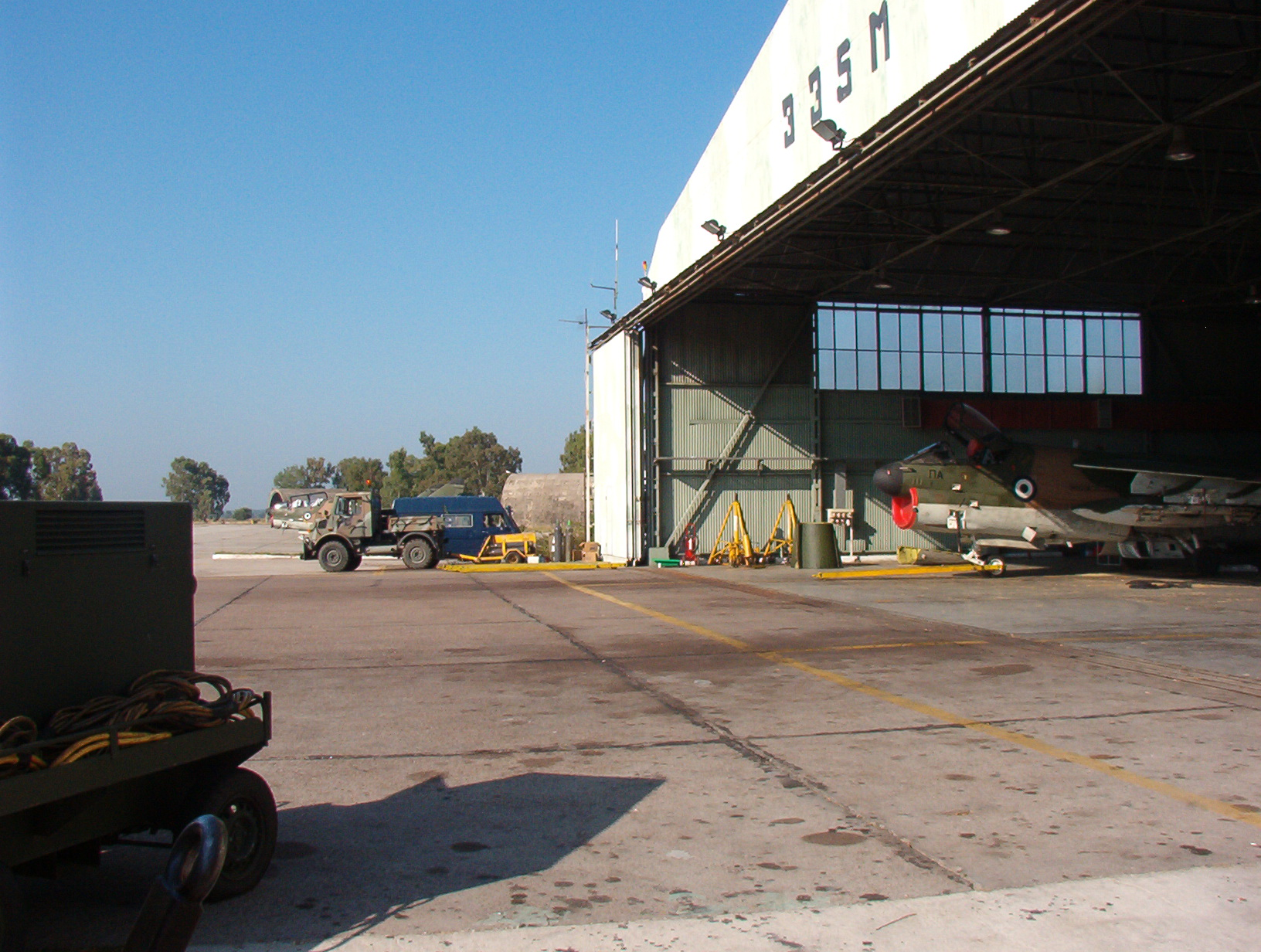 Source: Myself, during my guard duty Description: file description is adequate :P